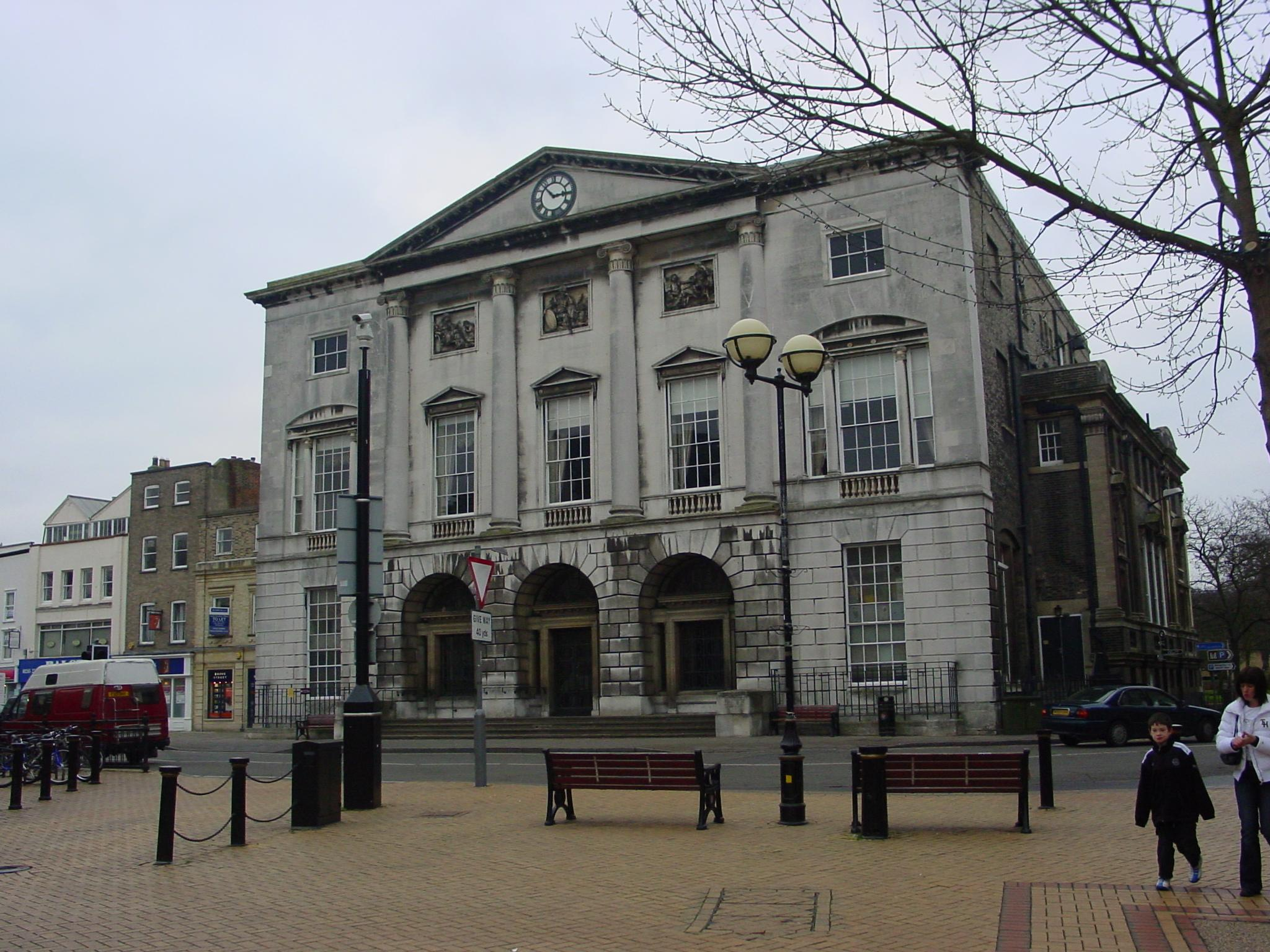 The Shire Hall Chelmsford in 2005